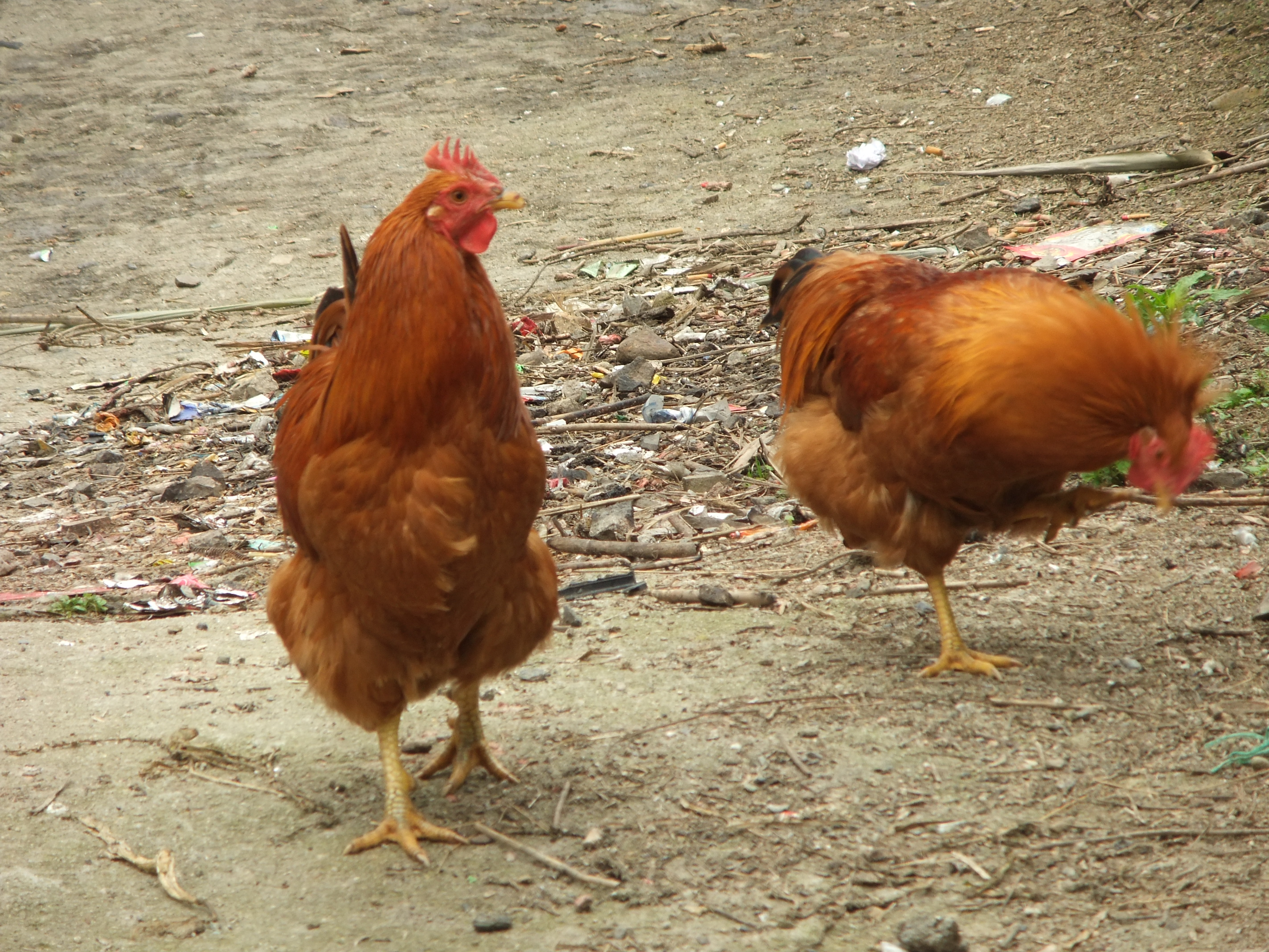 Shijia village (Hukeng Town, Yongding County). Plenty of well-fed chickens here.